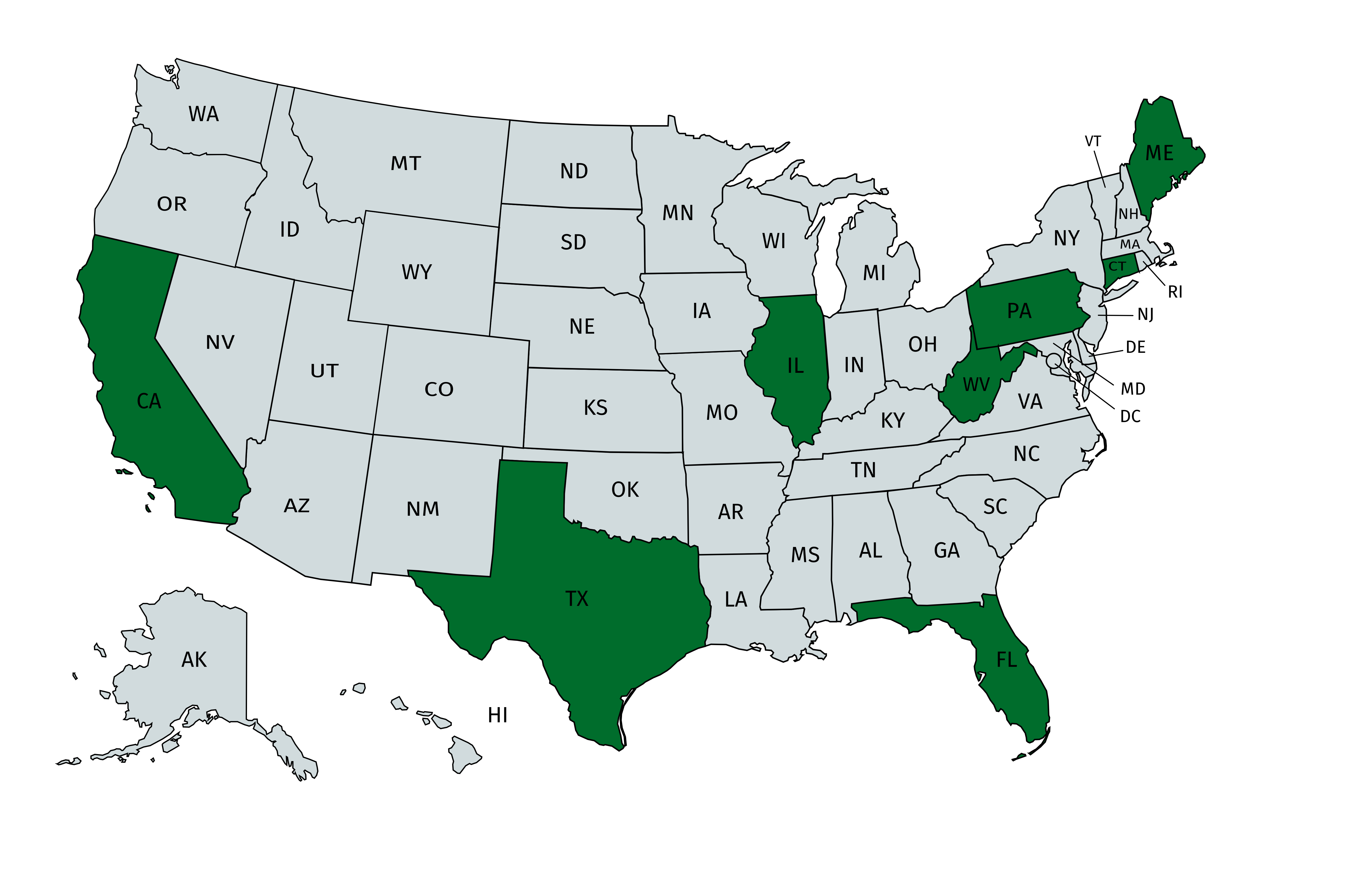 Map showing states represented at the The 1951 Little League World Series, which was held from August 21 to August 25 in Williamsport, Pennsylvania.